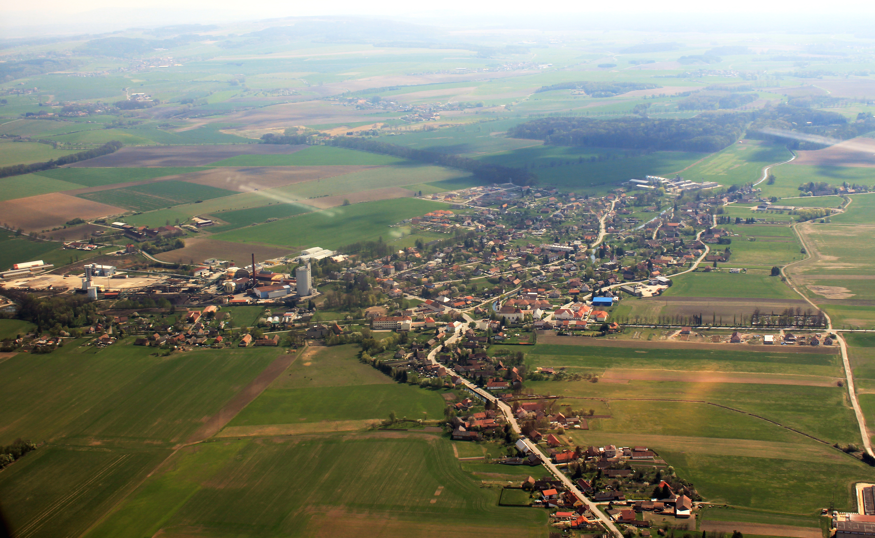 Small town České Meziříčí in Rychnov nad Kněžnou District from air, eastern Bohemia, Czech Republic